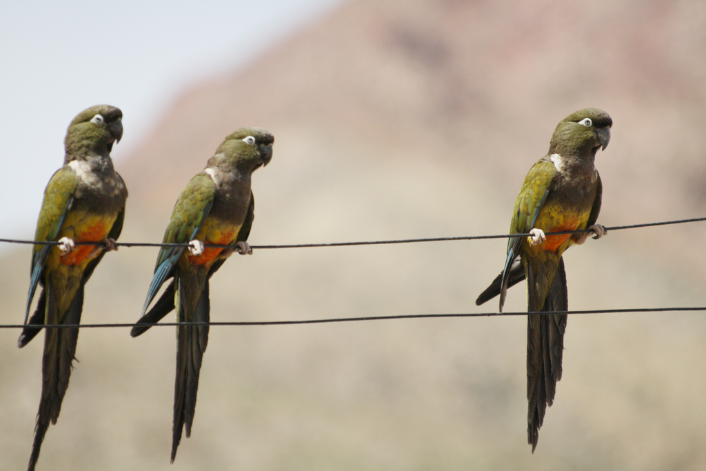 Three Burrowing Parrots in Limari Province, Chile.